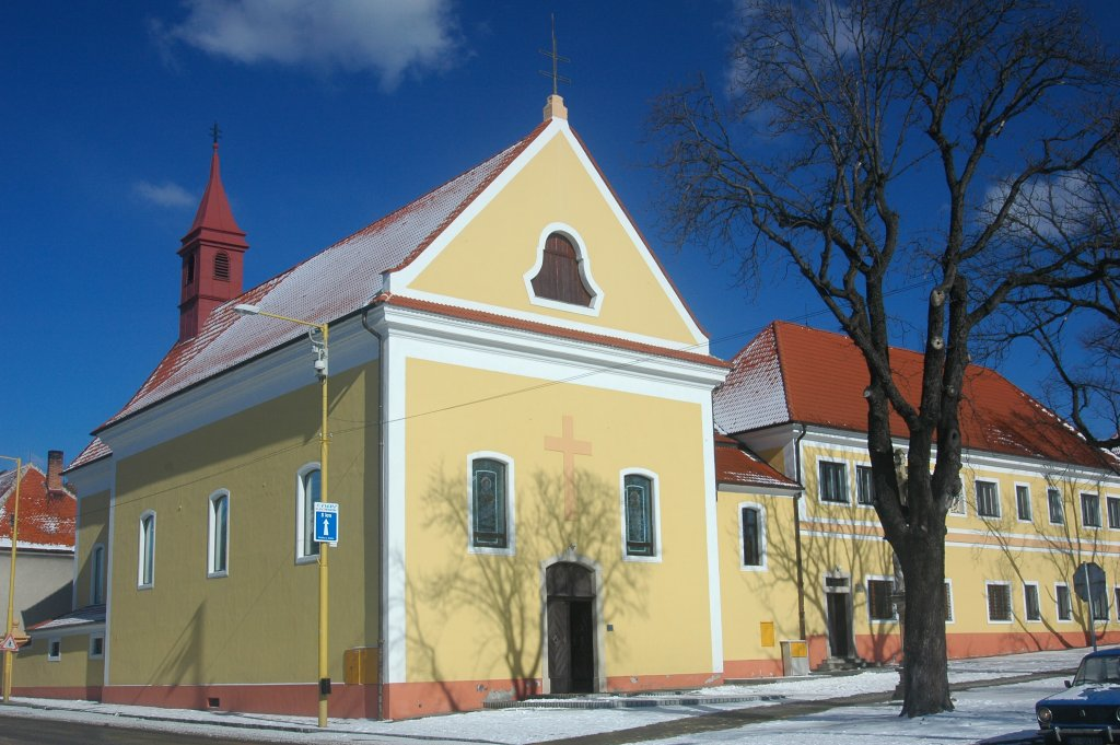 Holíč, St. Martin Square (Capuchin Monastery)